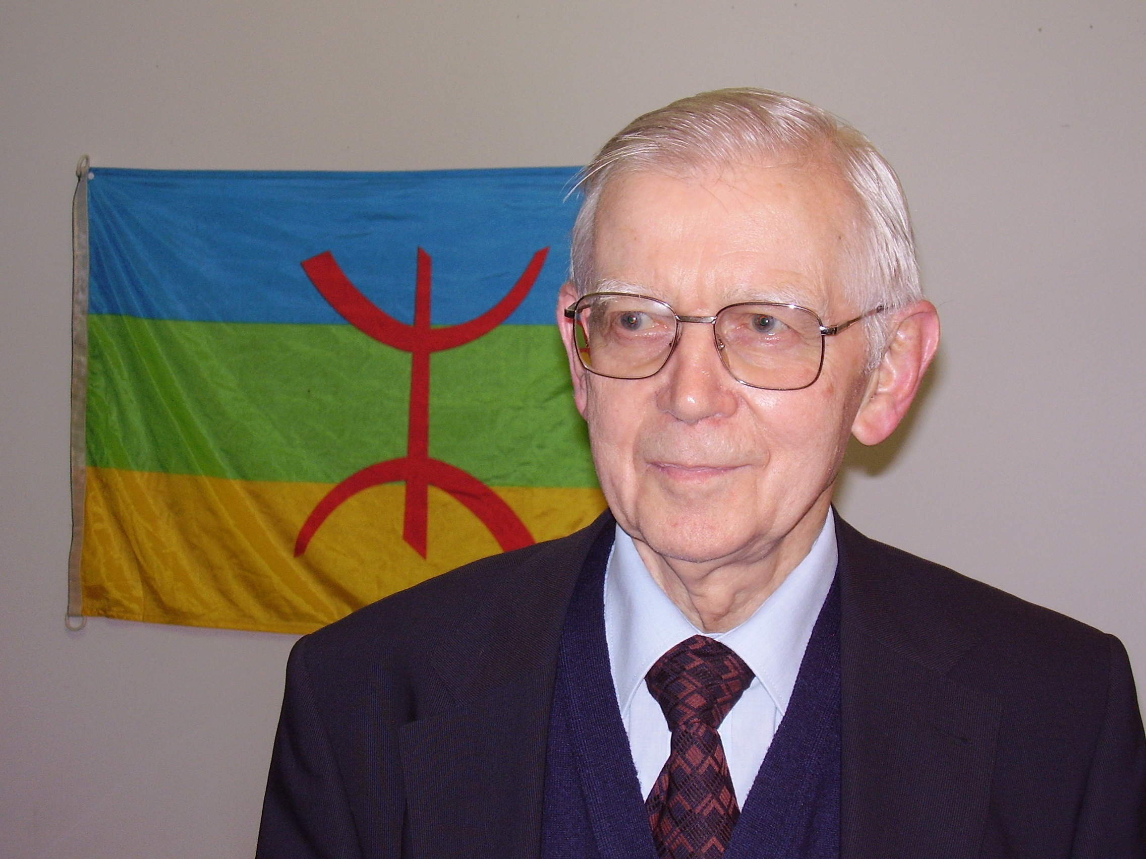 Prof. Lionel Galand in Paris (Oct. 29, 2010)